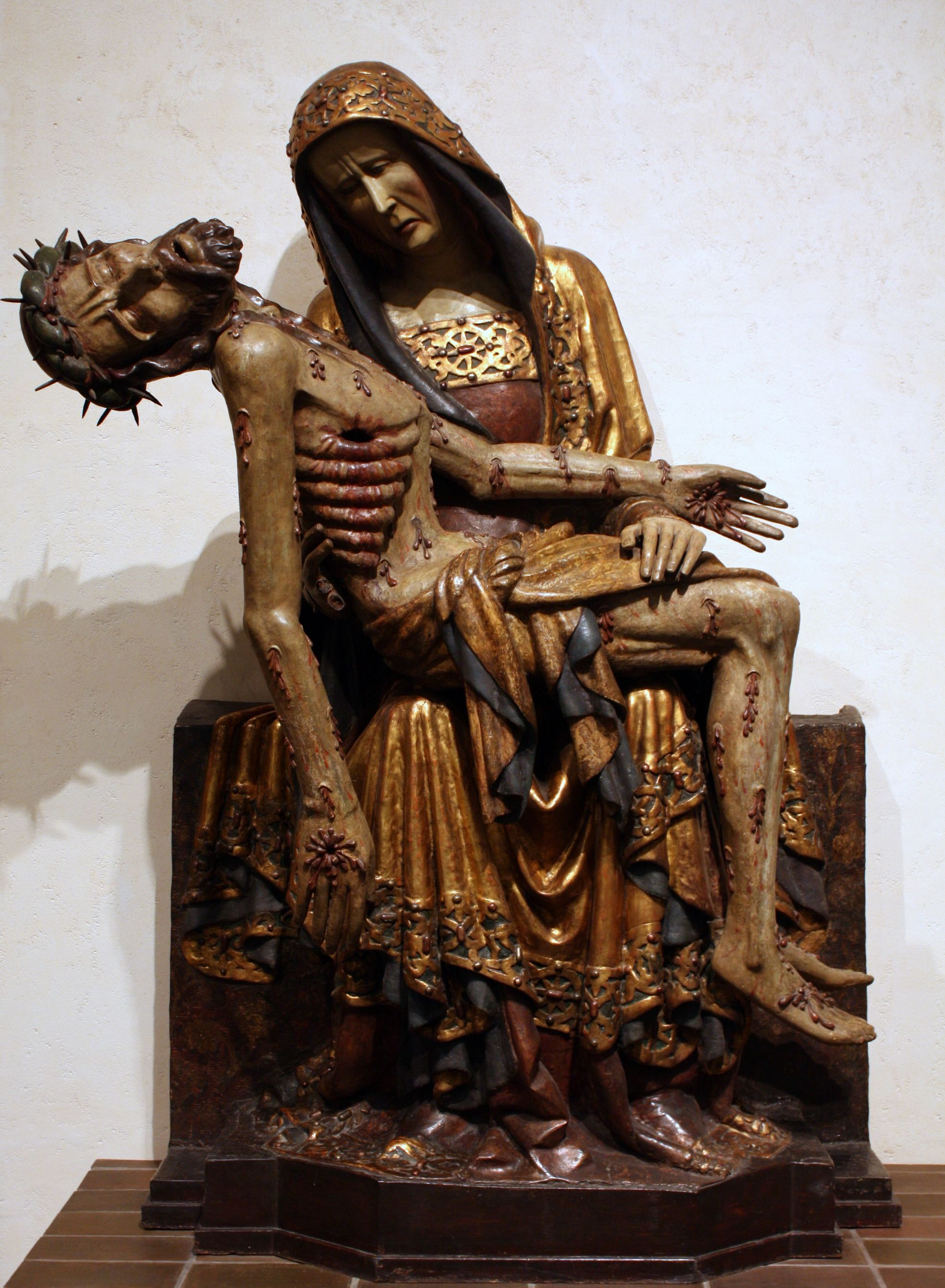 Pietà of the Lubiąż Abbey (Lower Silesia, Poland), nowadays in National Museum in Warshau